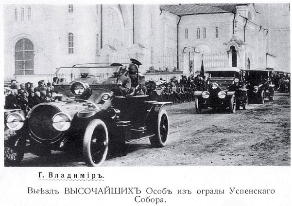 Emperor Nicolas II in Vladimir, may 1913. 300th anniversary of Romanov dynasty.